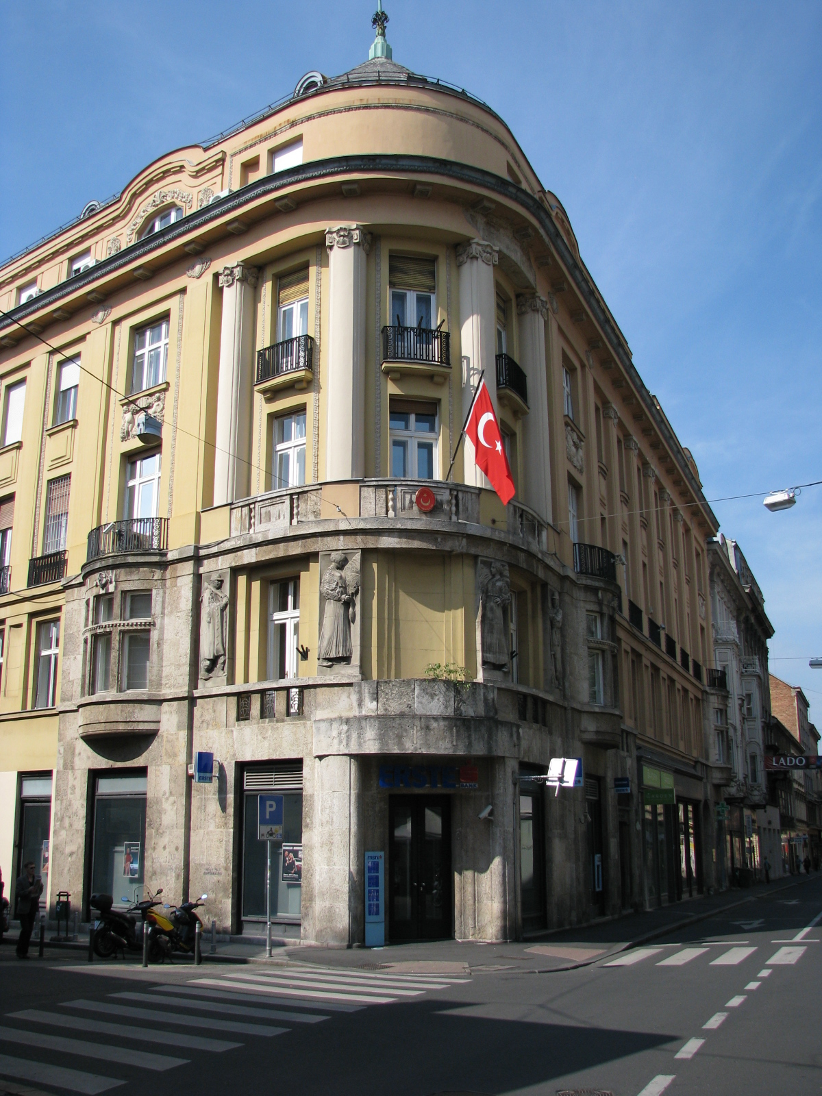 Former Turkish Embassy in Zagreb (moved out in 2016)